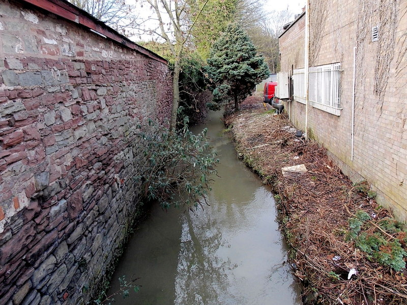 The Cut, Lydney